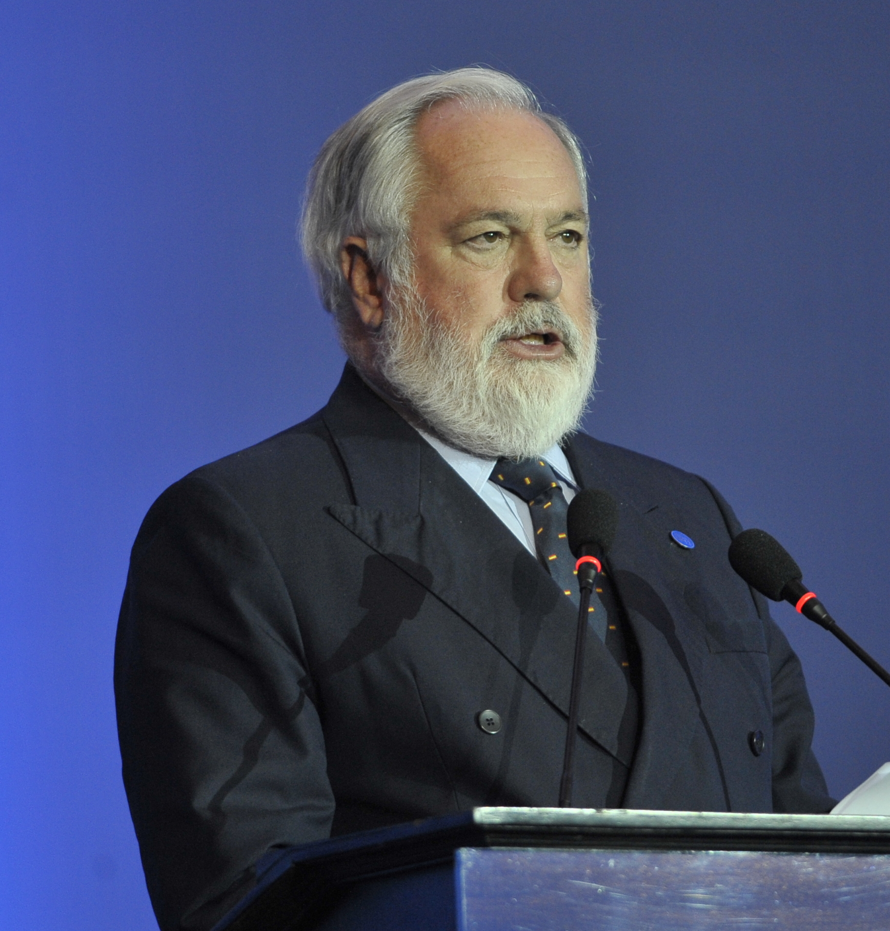 Miguel Arias Cañete - Day 3 of the WTO's Ministerial Conference, Bali, 3 December 2013.